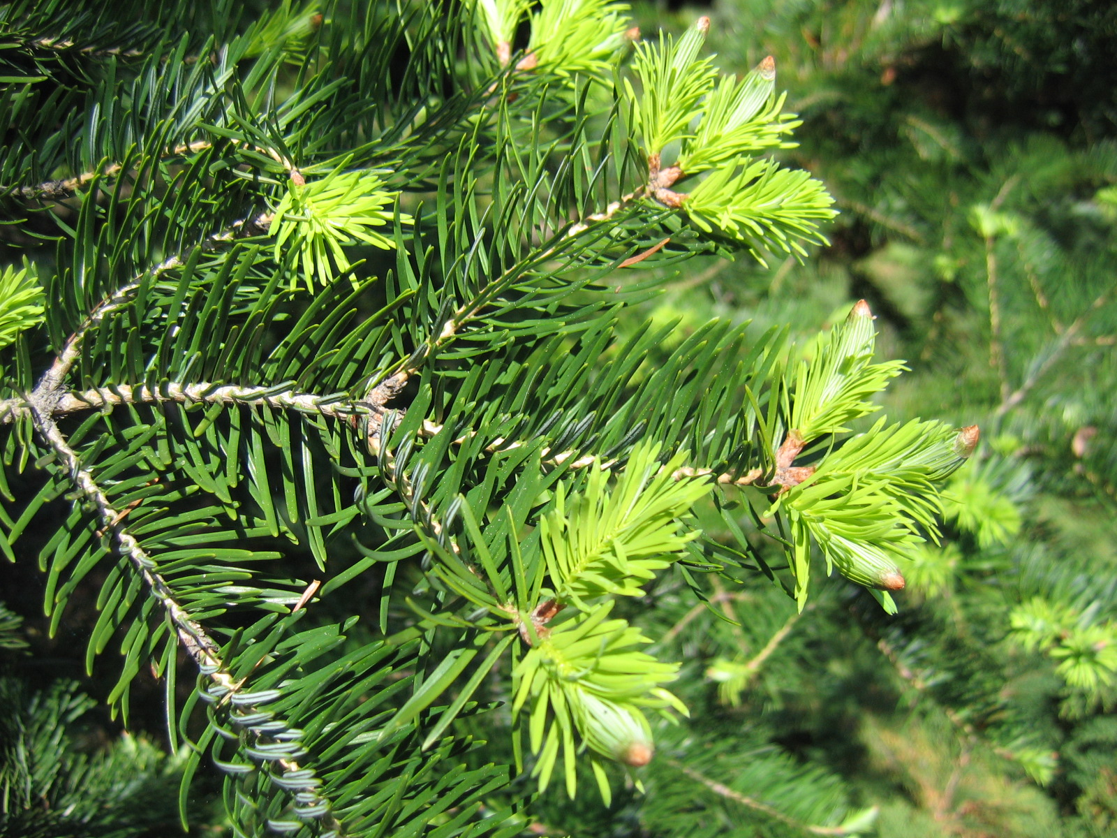 Needle fir (Abies holophylla), cultivated in Wrocław University Botanical Garden, Wrocław, Poland.